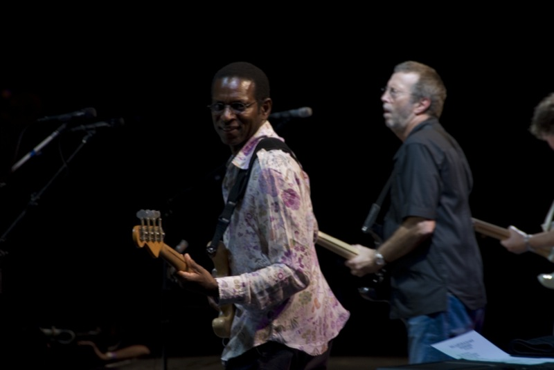 Eric Clapton and bass guitarist Willie Weeks, performing together, in the huge Crossroads Guitar Festival in 2007